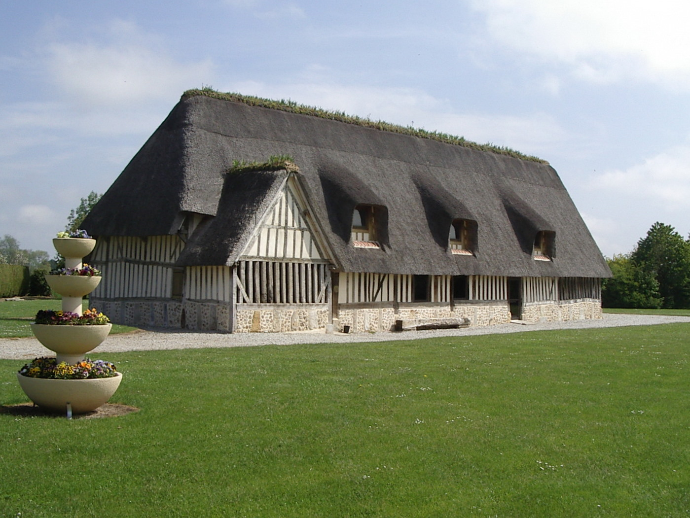 Building containing the Jonquerets-de-Livet press (Eure, France)